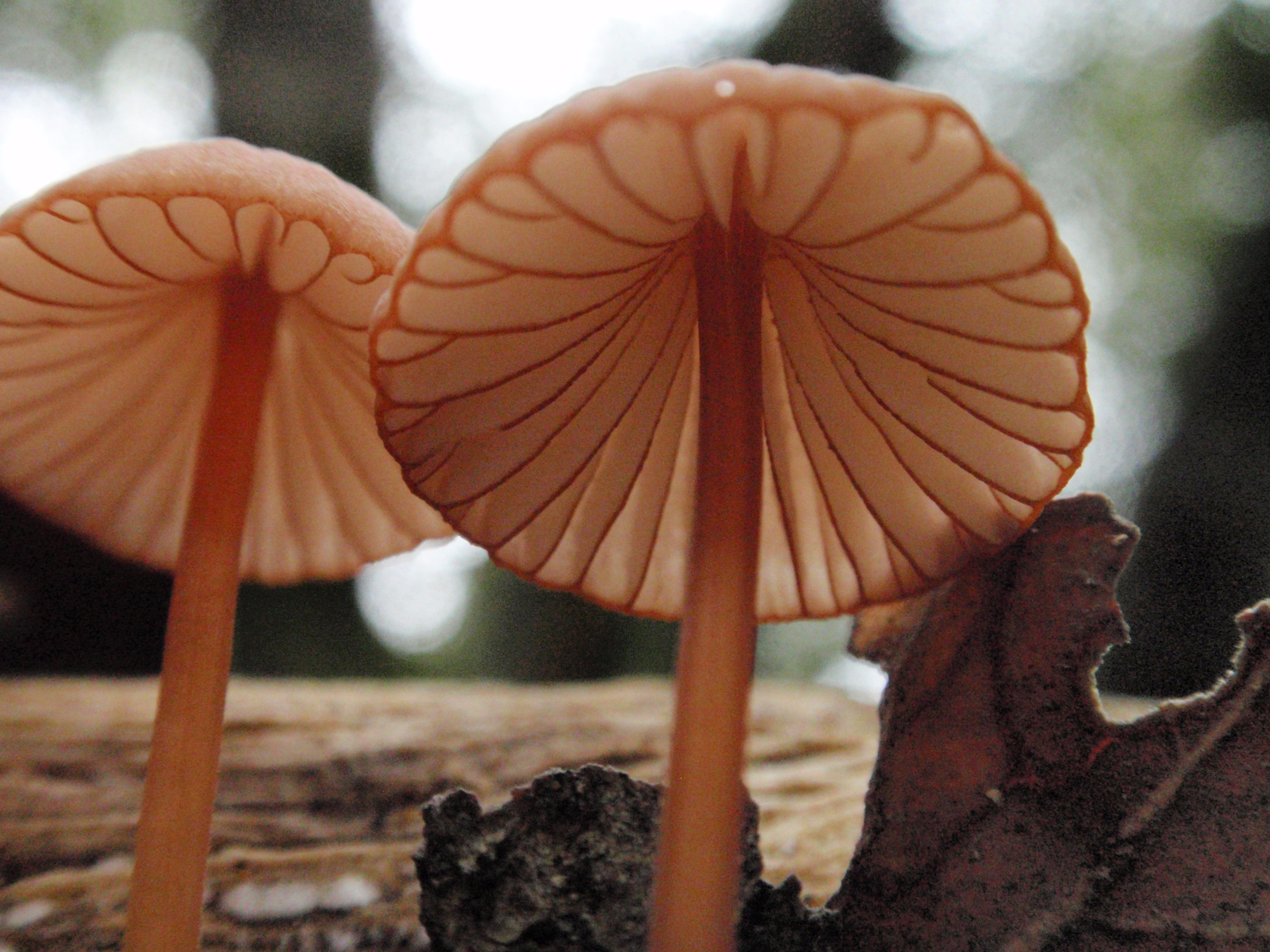 The gills of the mushroom Mycena californiensis Berk. & M.A. Curtis. Specimens photographed in Edgewood Park, San Mateo, California, USA.